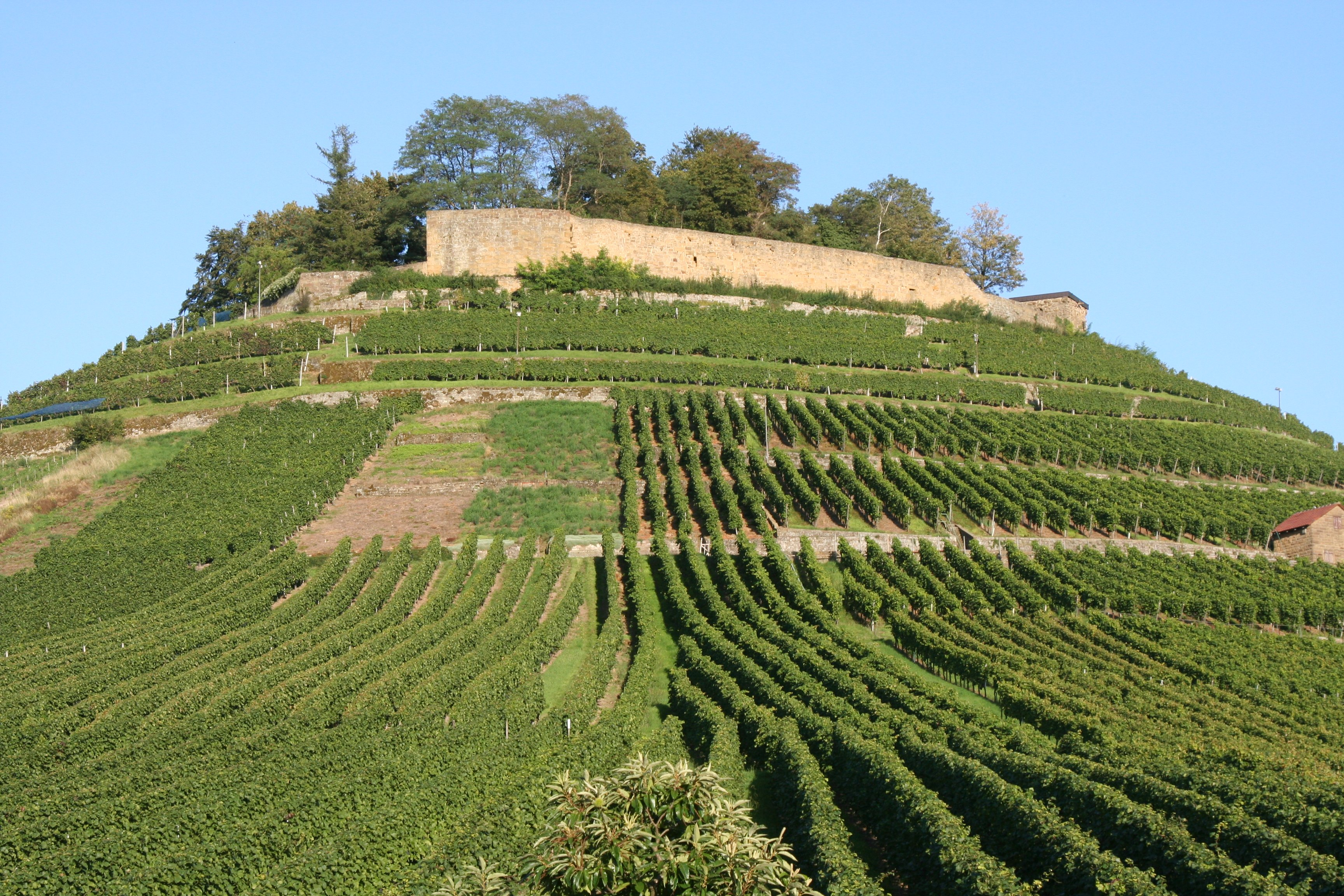 Burgruine Weibertreu from the Southwest